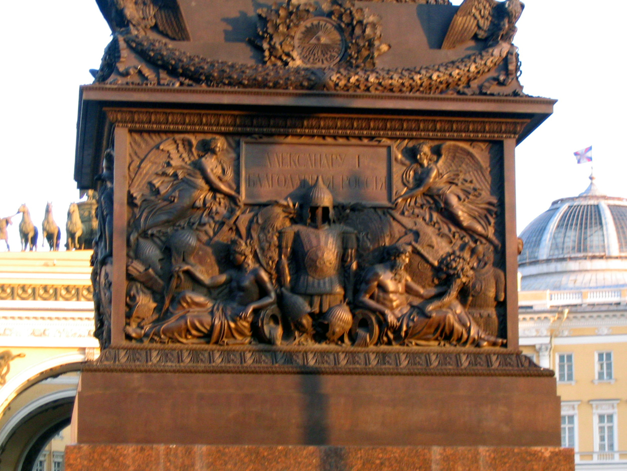 Saint Petersburg (Russia), Palace Square, Alexander Column.